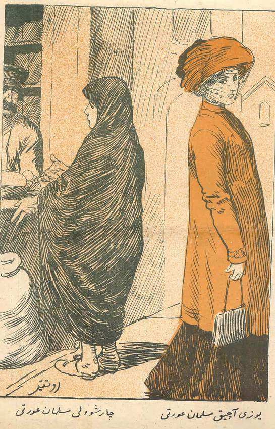 Muslim woman in chador (left) Muslim woman with exposed hair (right)